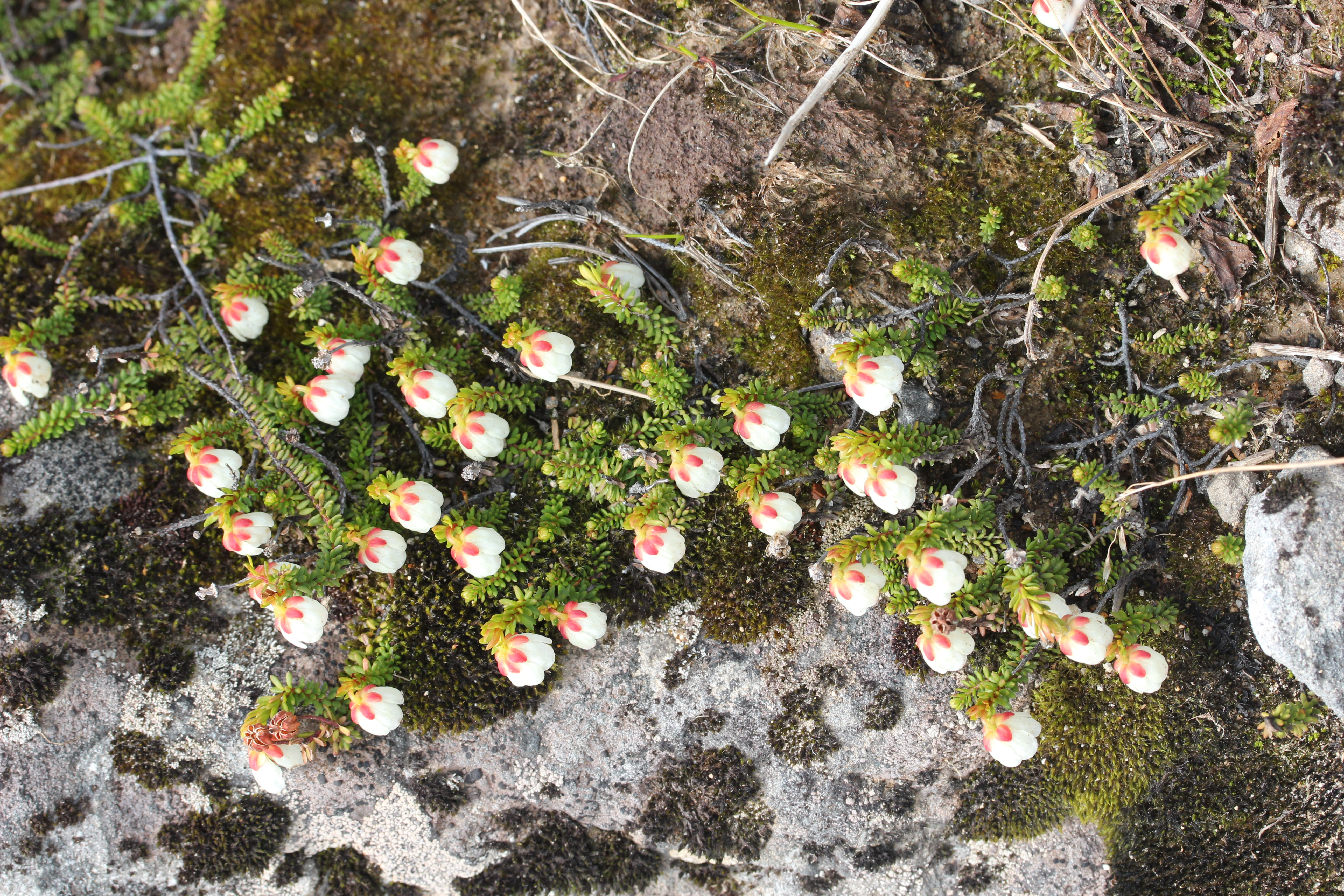 Harrimanella stelleriana in Mount Norikura, Hida Mountains, Japan.